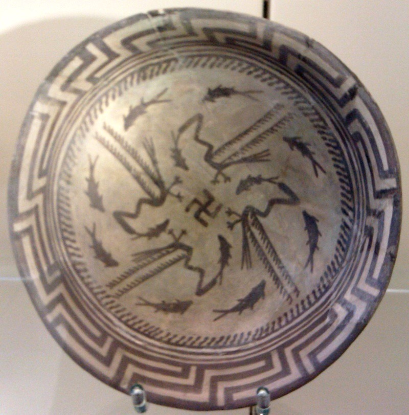 The Samarra bowl (ca. 4000 BC) at on exhibit at the Pergamonmuseum, Berlin. The bowl was excavated as Samarra by Ernst Herzfeld in the 1911-1914 campaign, and described in a 1930 publication. The design consists of a rim, a circle of eight fish, and four fish swimming towards the center being caught by four birds. As is typical of cultures from this region, the use of a base six numerical system can be seen in the lines surrounding the bowl, so that there are a total of 120 lines, or four quarters with 30 lines each. At the center is a swastika symbol. The bowl was broken, part of the rim is missing, and one crack ran right across the central symbol, so that the swastika symbol should be considered a reconstruction. Literature: Ernst Herzfeld, Die vorgeschichtlichen Töpfereien von Samarra, Die Ausgrabungen von Samarra 5, Berlin 1930. Stanley A. Freed, Research Pitfalls as a Result of the Restoration of Museum Specimens, Annals of the New York Academy of Sciences, Volume 376, The Research Potential of Anthropological Museum Collections pages 229–245, December 1981